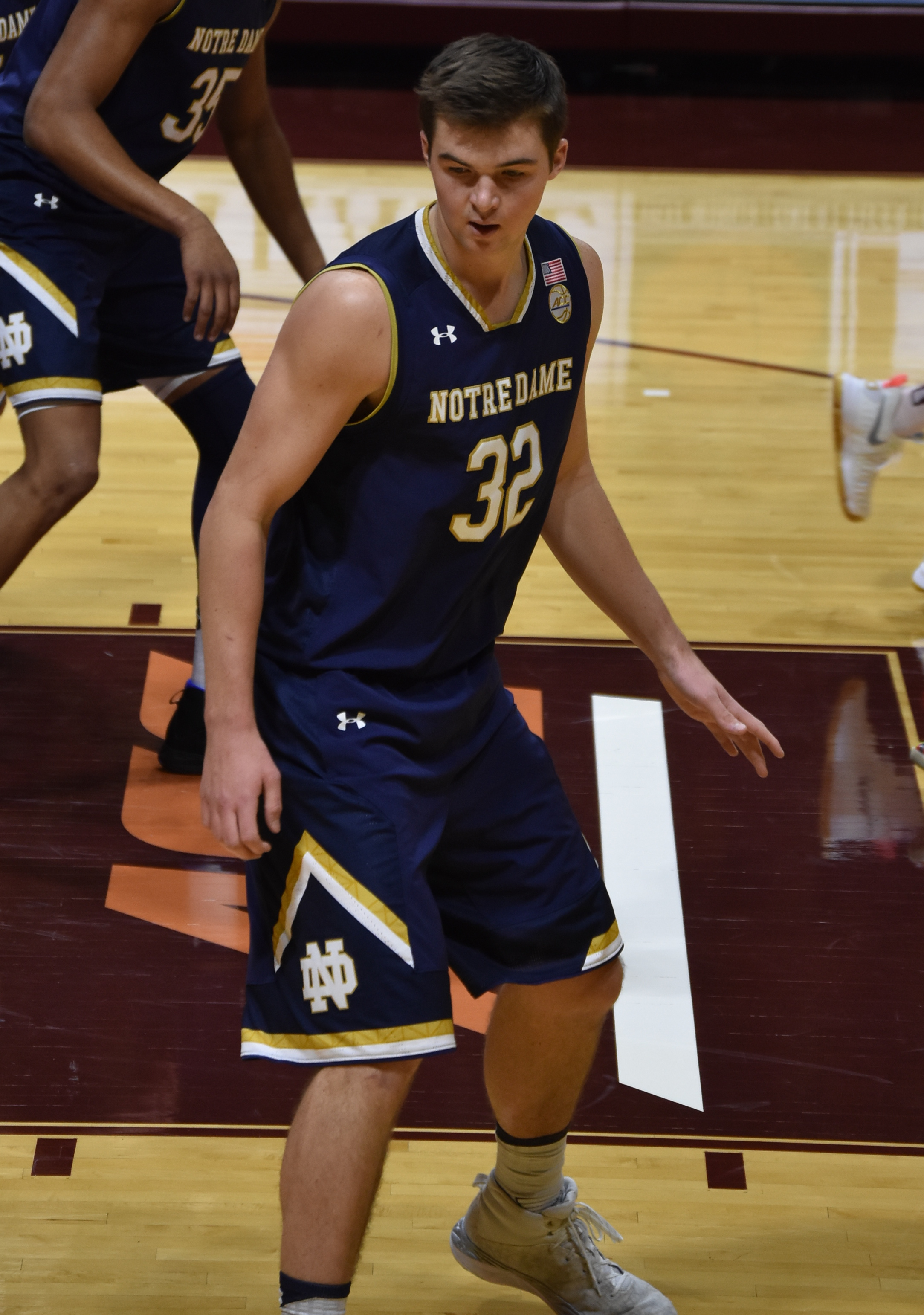 The Fighting Irish sets up on defense against the Hokies